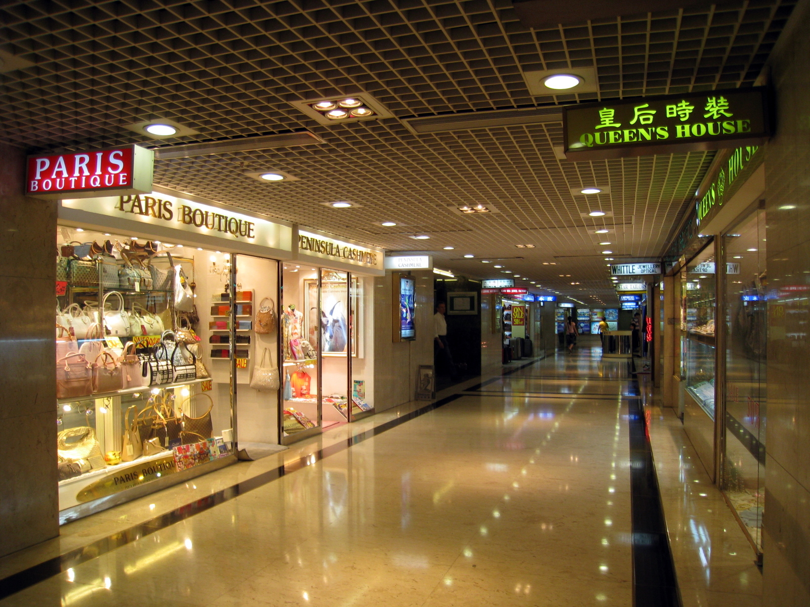 Star House Shopping Arcade Interior